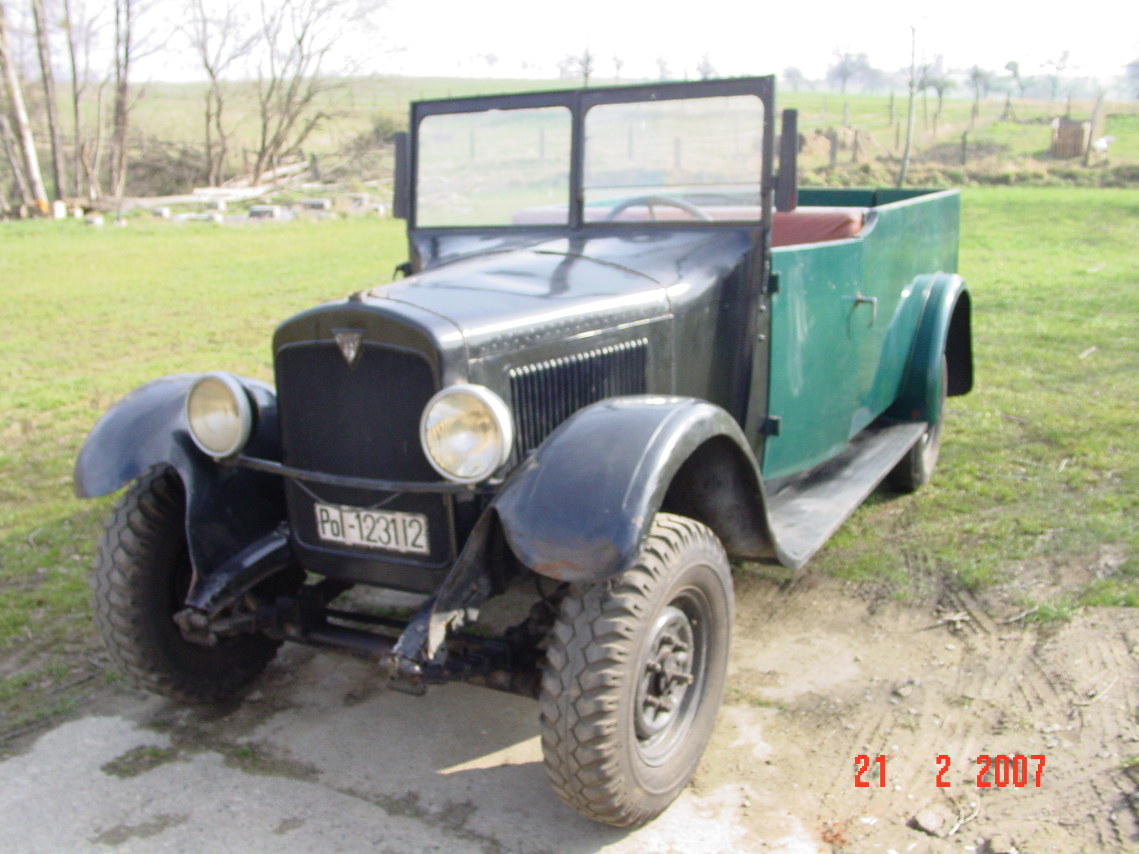 Adler Standard 6 from the former DEFA studios in Babelsberg